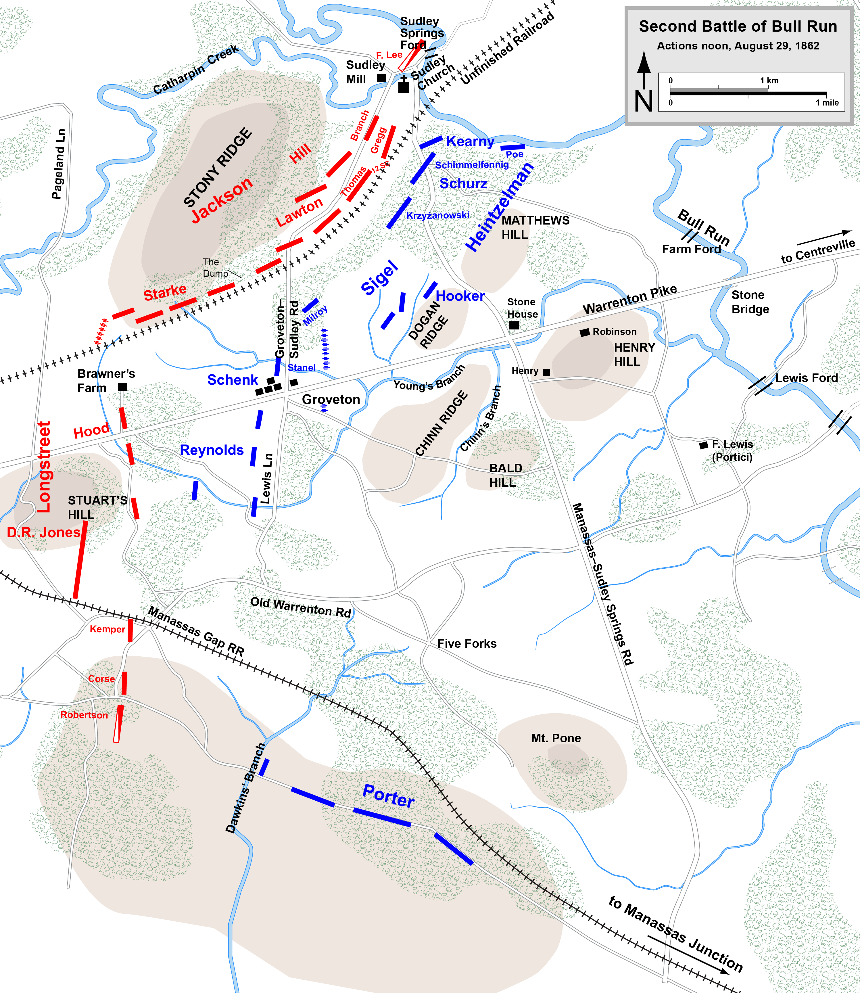 Map of the Second Battle of Bull Run of the American Civil War